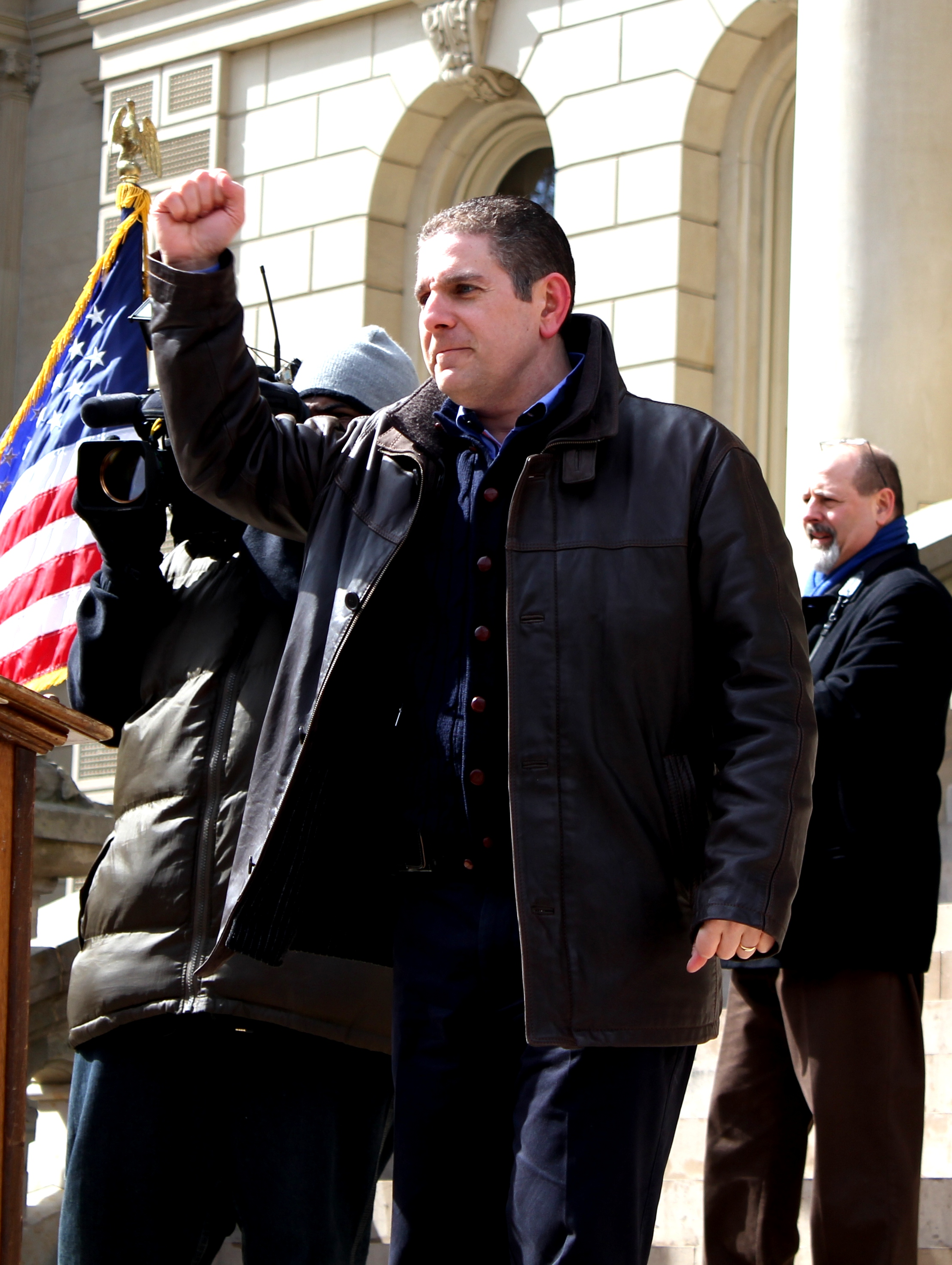 Lansing City Mayor, Virg Bernero